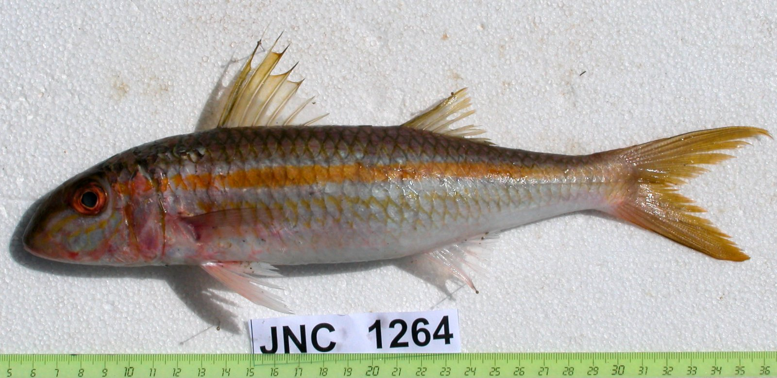 Mulloidichthys vanicolensis. Locality: fish market, Nouméa city, New Caledonia. Fork Length 280 mm. Date 17 September 2004.